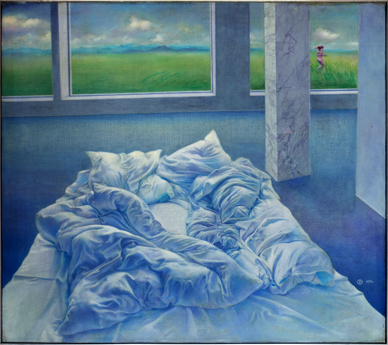 Petra Oriešková, Escape, oil on canvas, 1974